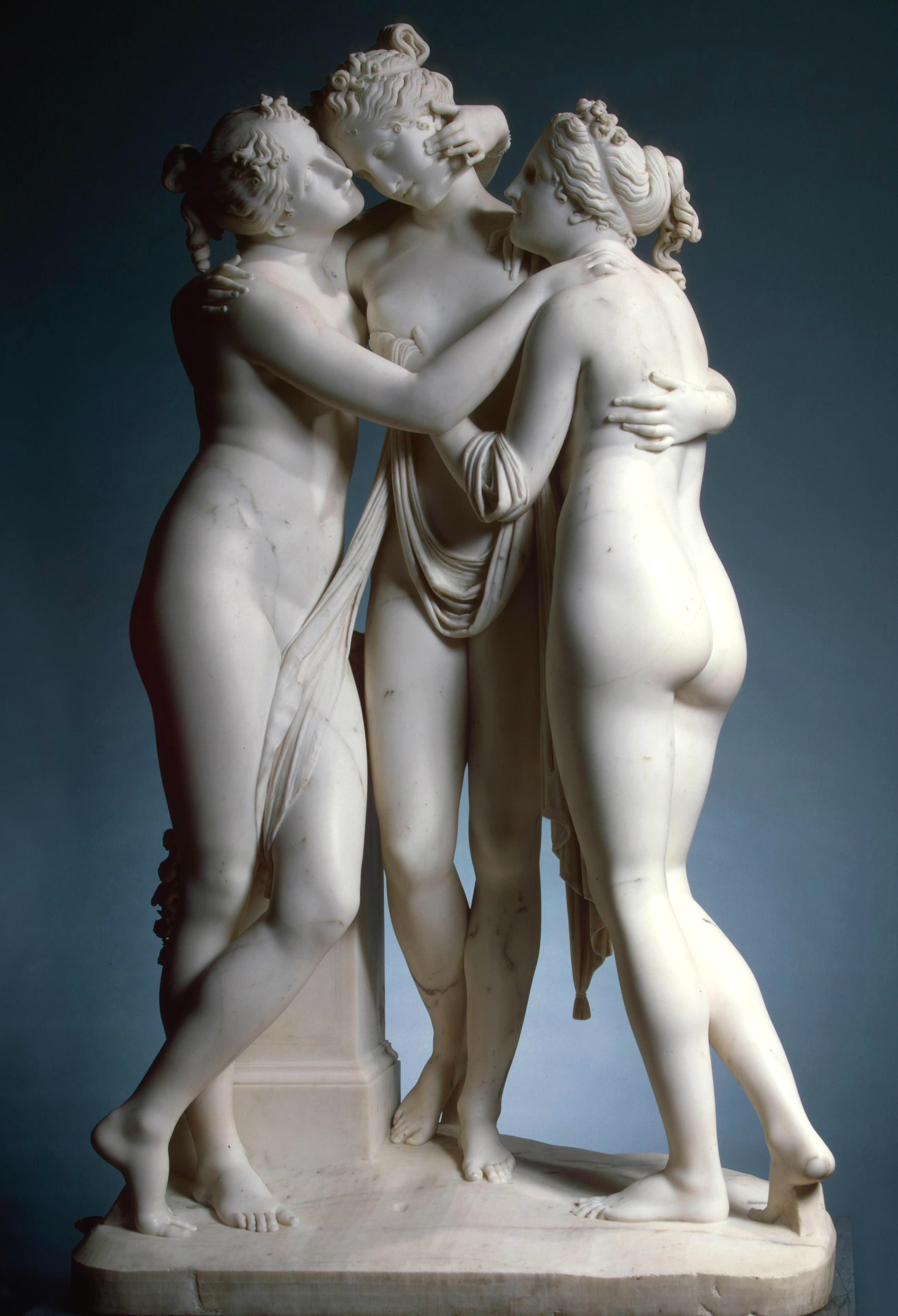 Three Graces - sculpture work by Antonio Canova (taken from IT wiki)